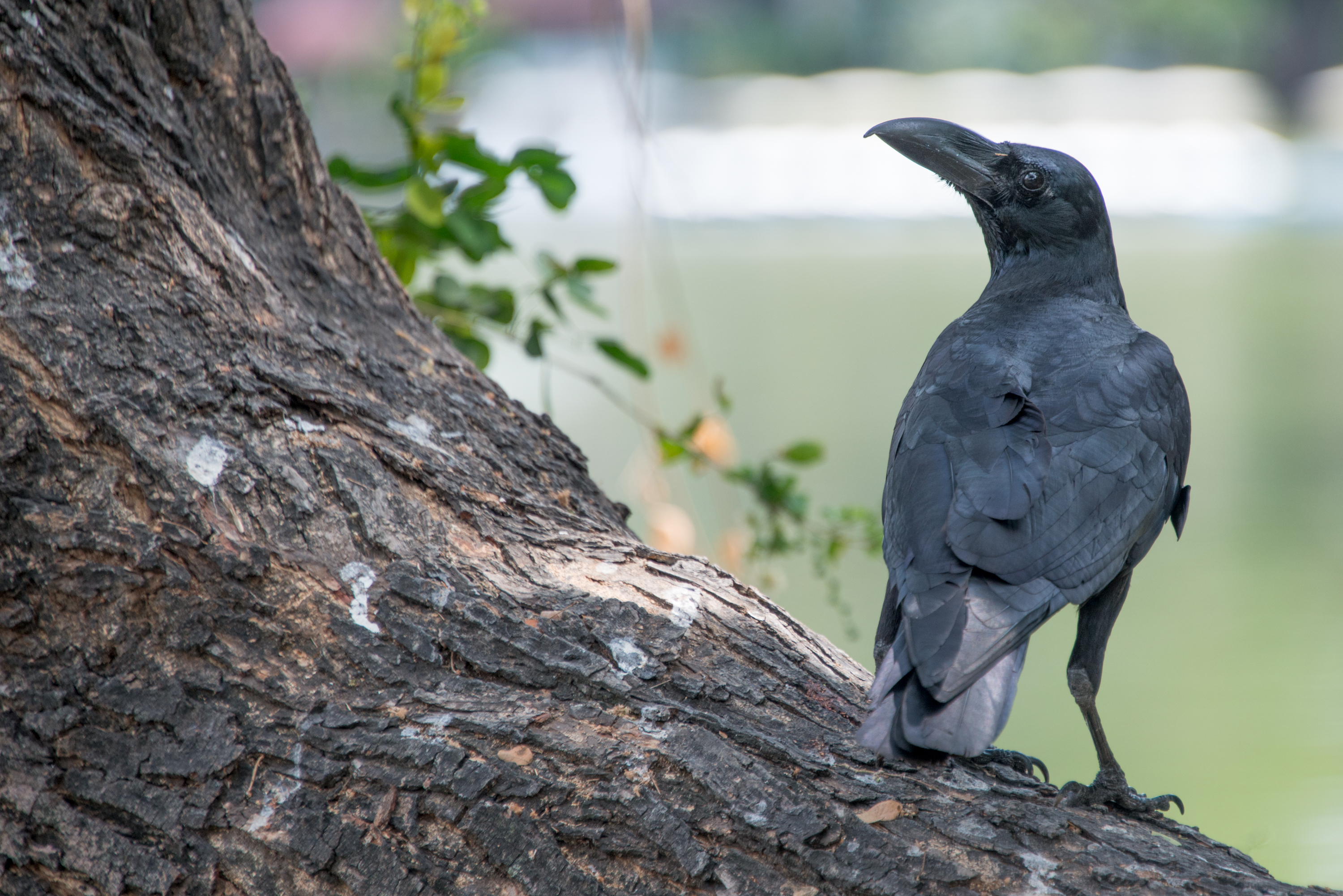 Eastern Jungle Crow Corvus levaillantii, at Lumpini Park, Bangkok - Photo by Thai National Parks, Thailand.